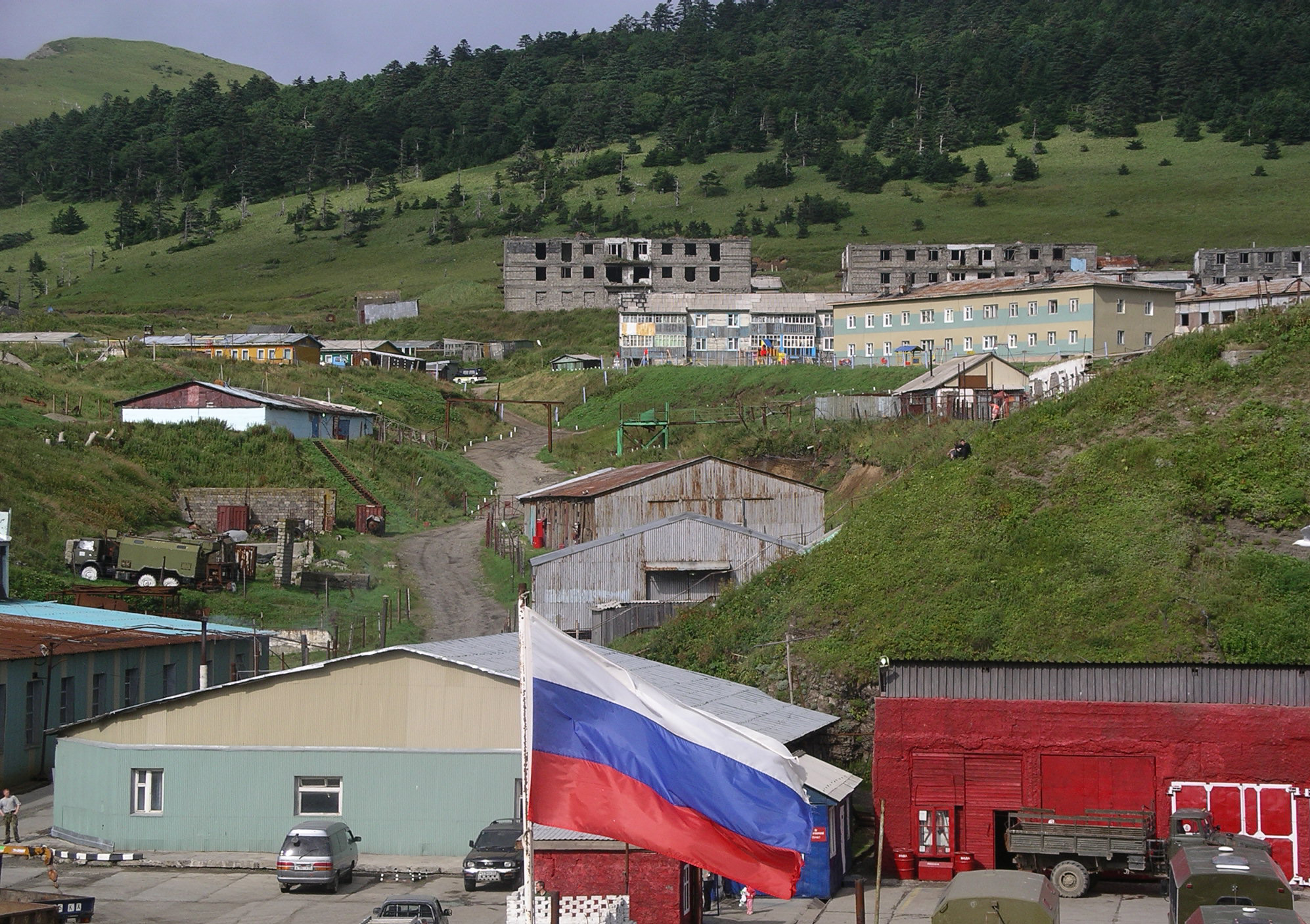 View on Malokurilskoye, Shikotan, Kurils, Russia